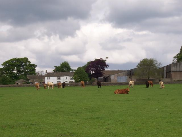 Halton East, North Yorkshire, view from the south